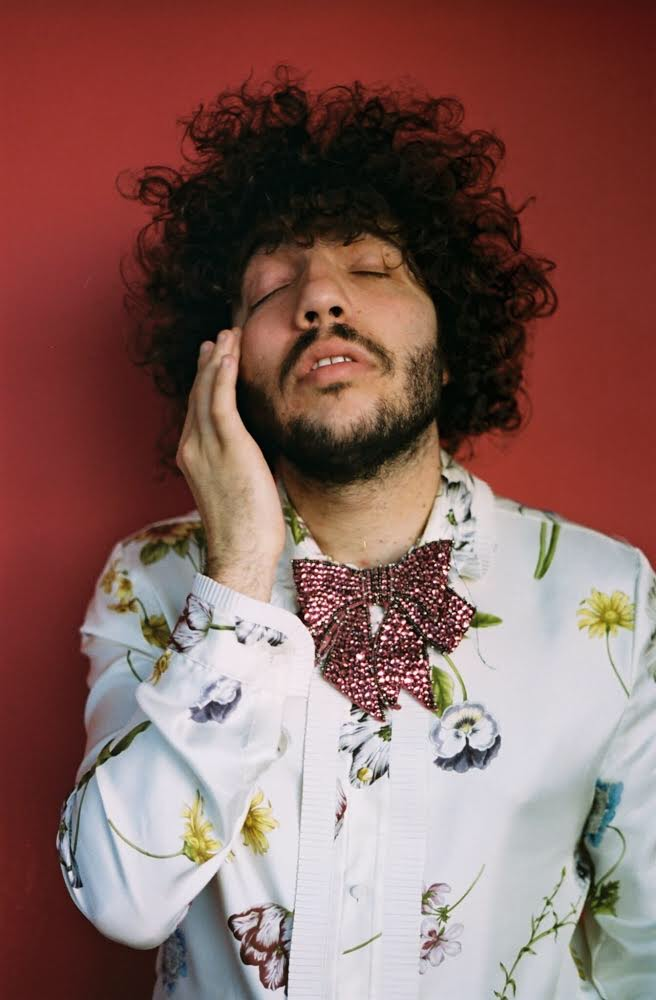 by Matt Adam (